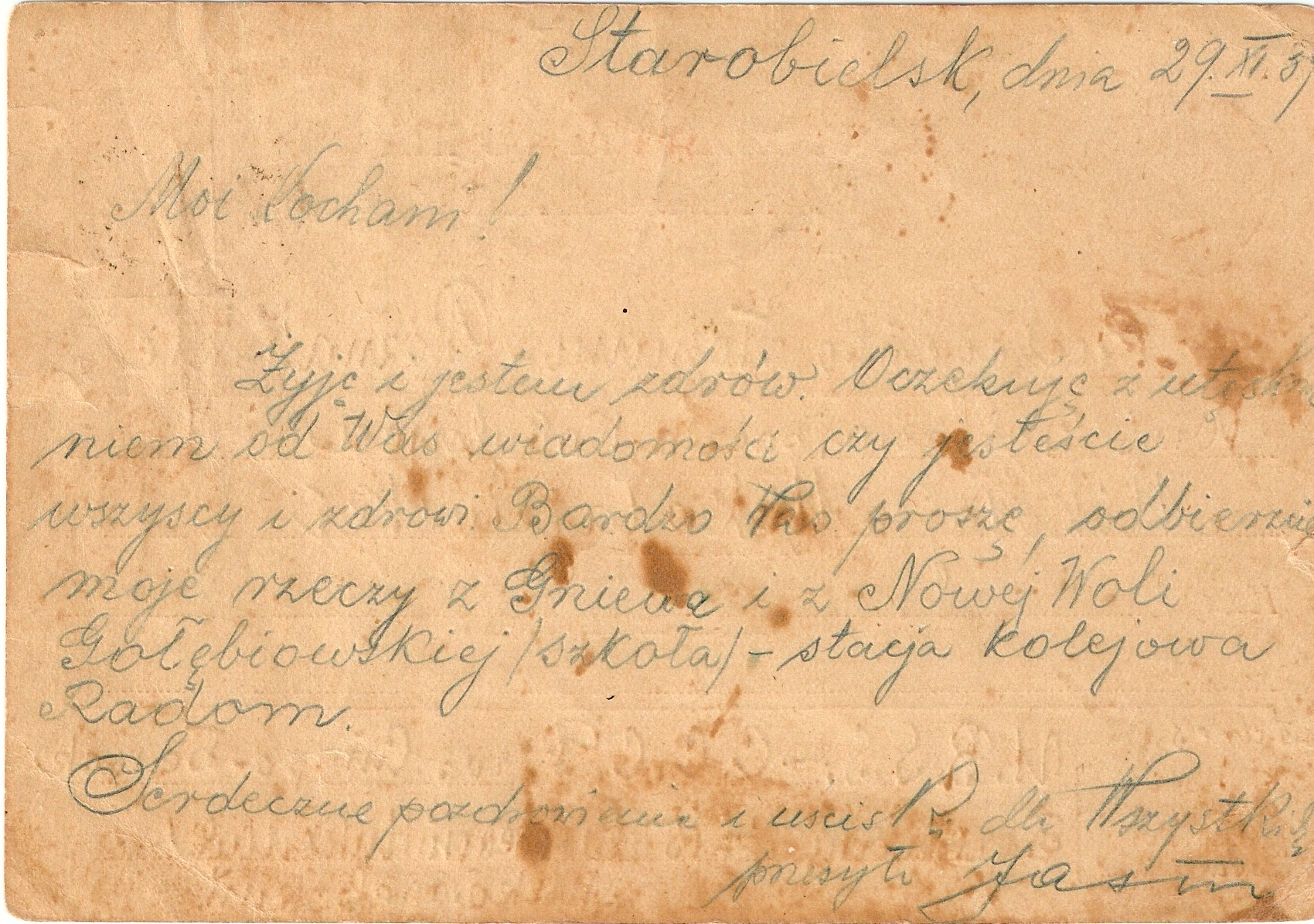 Post card from USSR camp for polish officers